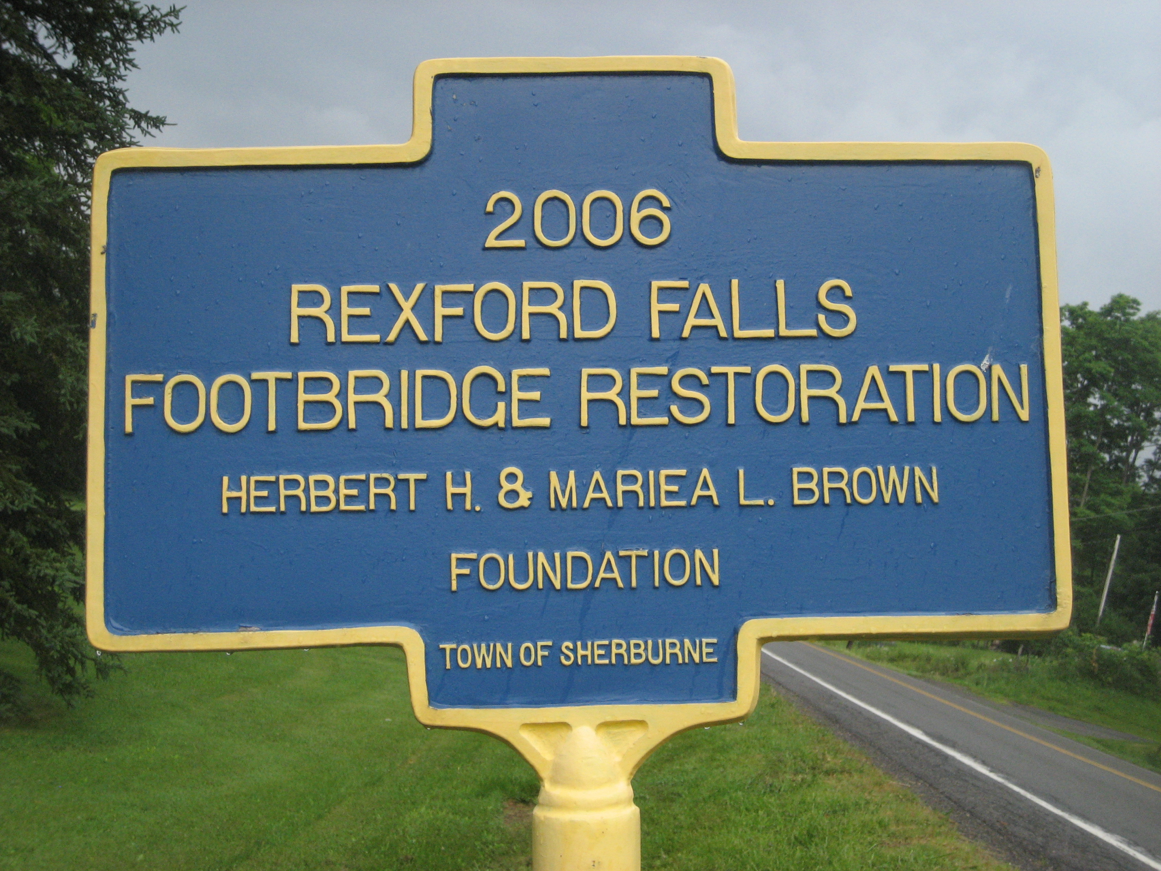 Historic marker of 2006 Rexford Falls, Sherburne, NY. Footbridge restoration by the Herbert H. & Mariea L. Brown Foundation.